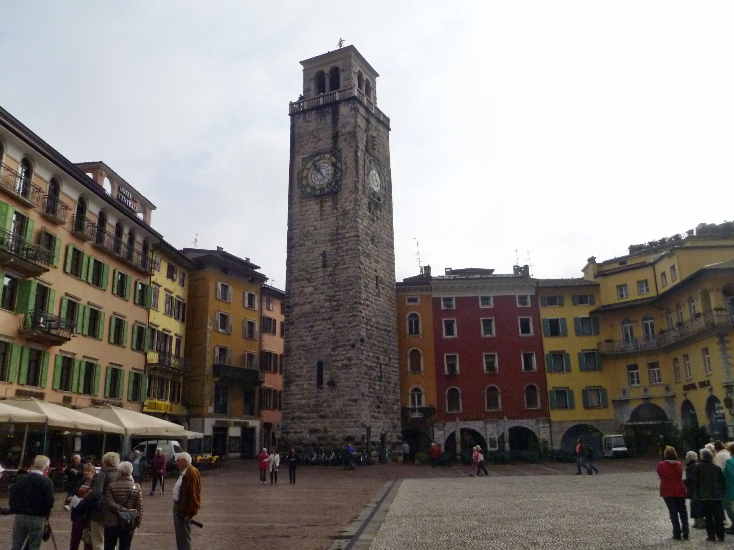 "Piazza Tre Novembre" and the Torre Apponale (1273); Riva del Garda, Italy